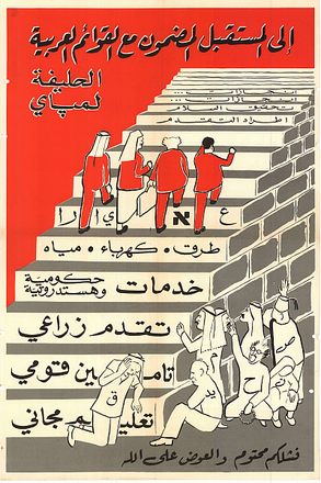 Mapai election poster for Arabic lists